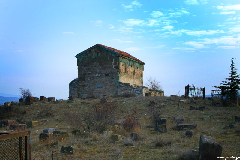 Medieval church in Pavnisi, Georgia